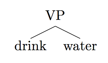 Tree for Wikipedia's Minimalist Program article.